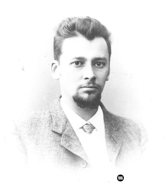 Karl H. Wiik, a Finnish revolutionary socialist.